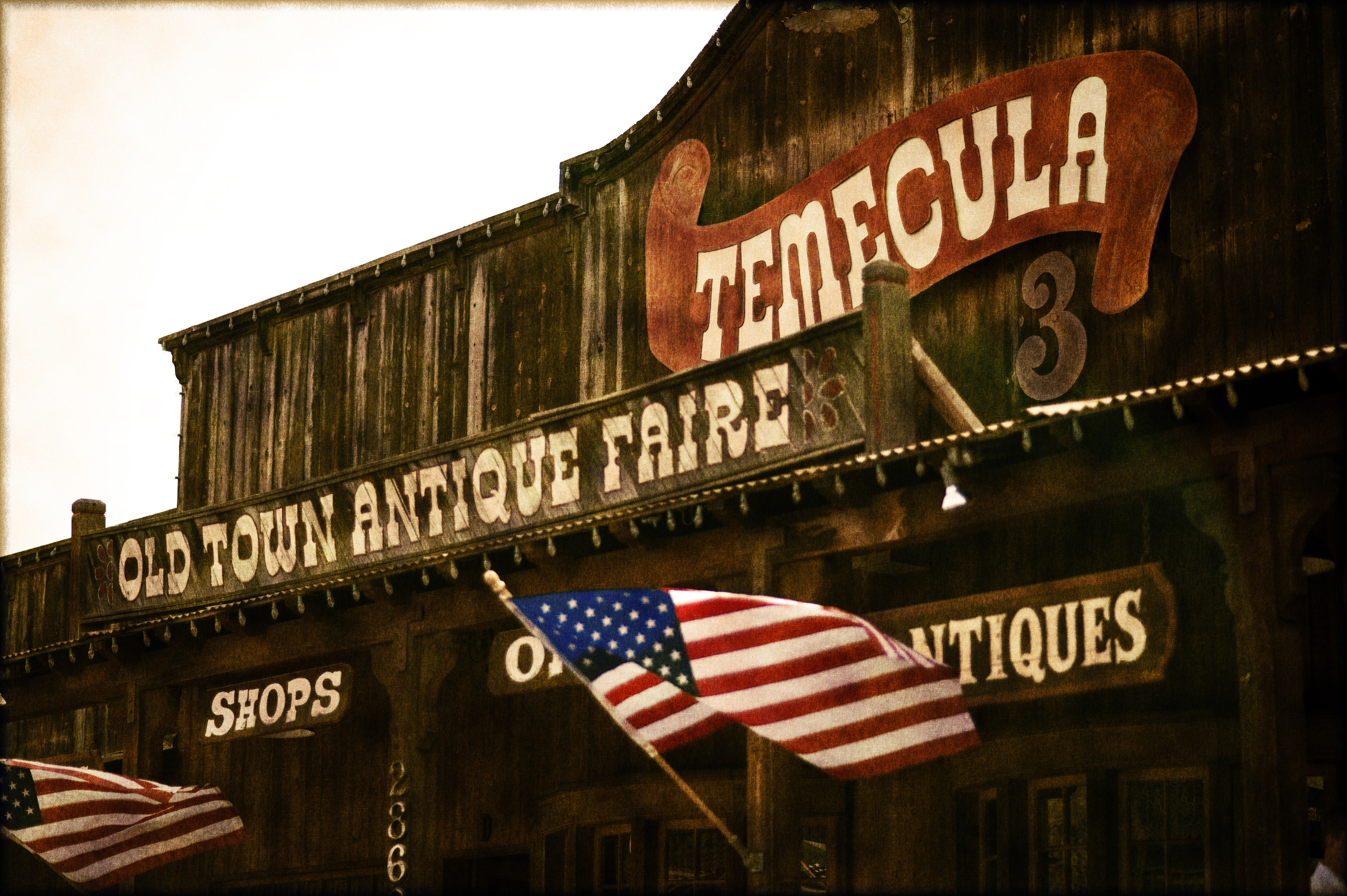 Old Town Temecula